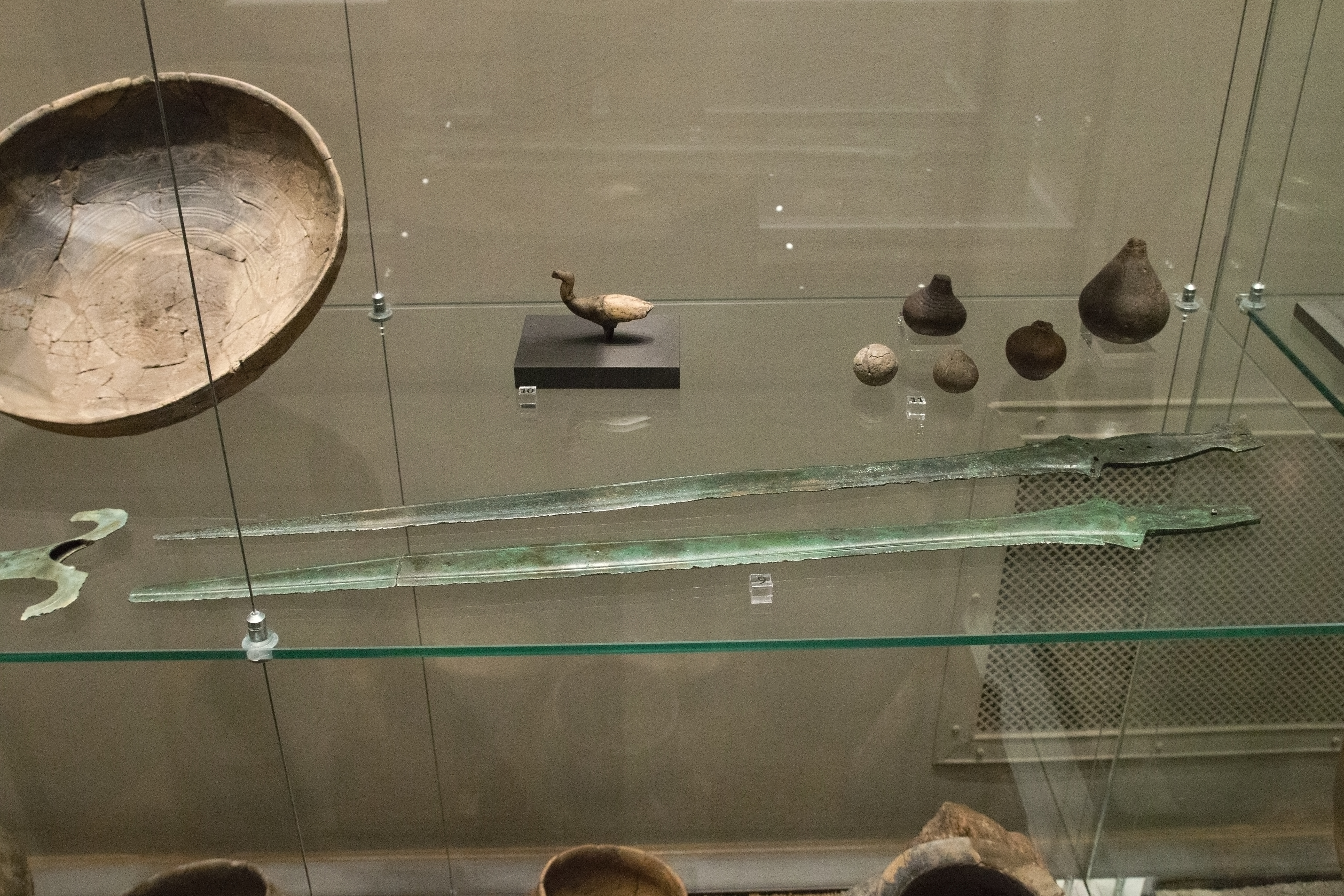 Bronze swords, Hallstatt tumulus culture, 800 - 550 BC. Museum of Western Bohemia in Pilsen.